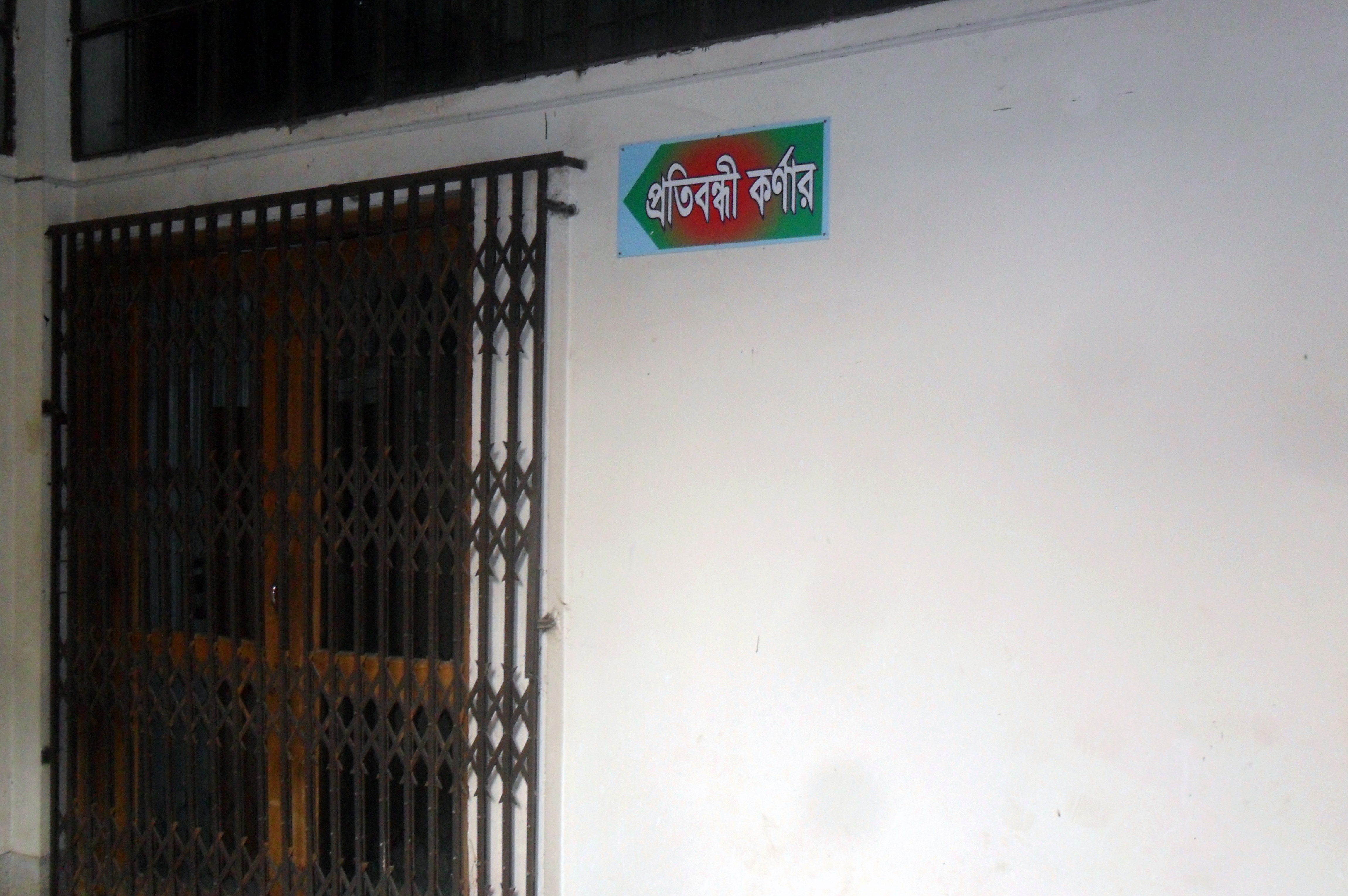 Disability Corner at Chittagong University Library